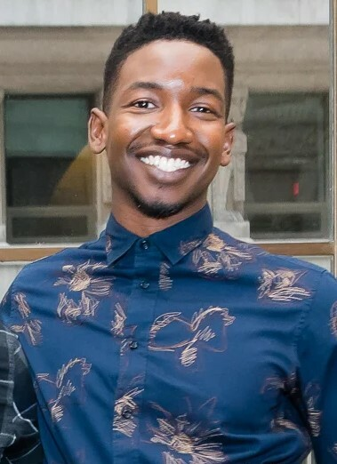 Sorry For Your Loss: Mamoudou Athie Interview. One of the many things to world premiere at this year’s Toronto International Film Festival was a new drama from Facebook, Sorry For Your Loss. Written and created by nationally-produced and award-winning playwright, Kit Steinkellner (Z: The Beginning of Everything), the show is a half hour drama starring Elizabeth Olsen (who also executive produces) as a young widow struggling to put her life back together in the wake of her husband’s (Mamoudou Athie) unexpected death. Unlike most shows and movies where grief can be worked through between the first and second act, Sorry For Your Loss features realistic characters and situations where you really feel like you’re watching yourself or people you know trying to figure out life after something so traumatic happens.